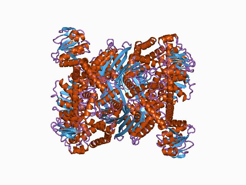 Cartoon representation of the molecular structure of protein registered with 1b3b code.